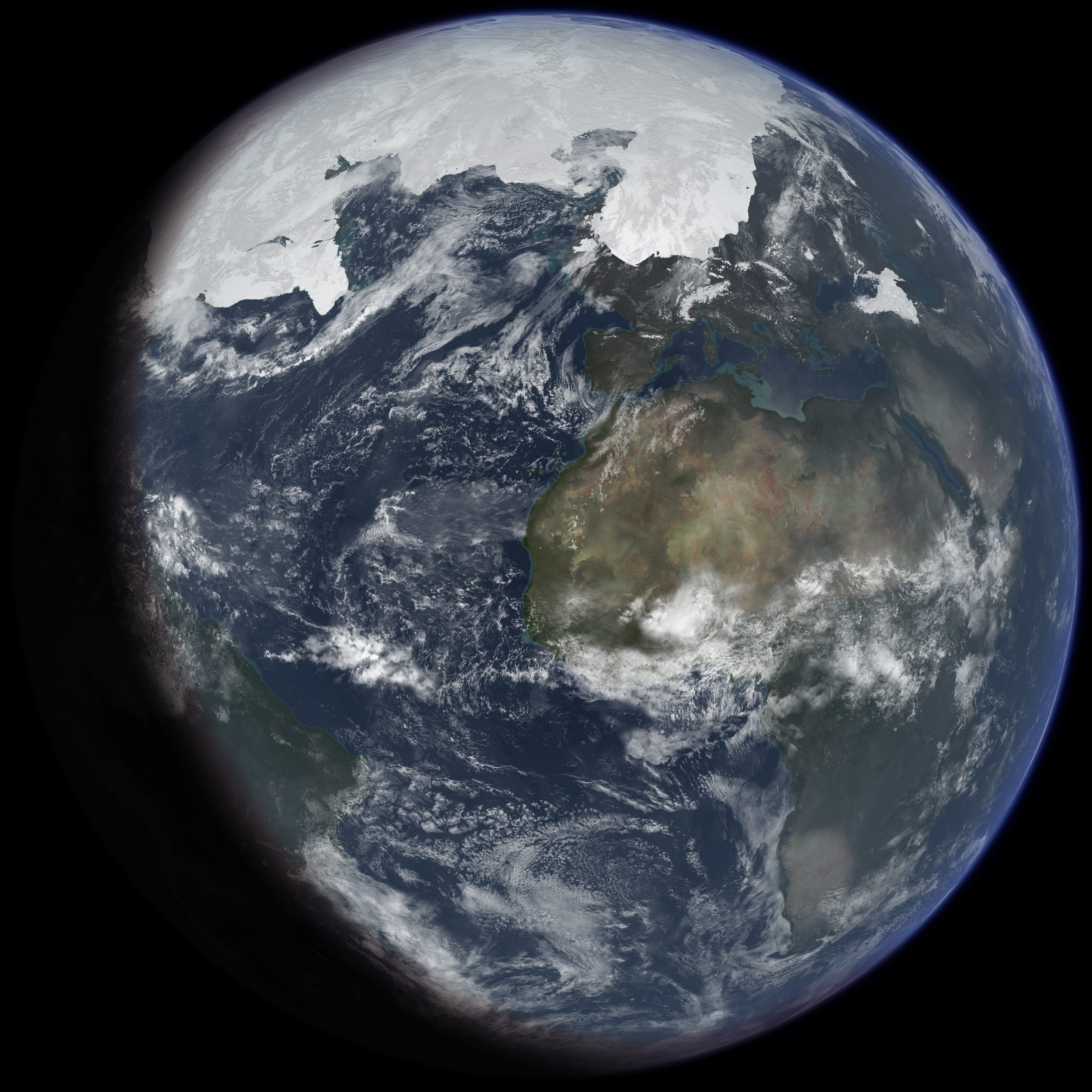 Earth at the last glacial maximum of the current ice age. Based on: "Ice age terrestrial carbon changes revisited" by Thomas J. Crowley (Global Biogeochemical Cycles, Vol. 9, 1995, pp. 377-389 Inaccuracies: 1. The glacial cover of the alps is depicted incorrectly (compare "Map of Alpine Glaciations": ) 2. The vegetation zones in Africa and Arabia are inacurrate (compare "Last glacial vegetation map": )